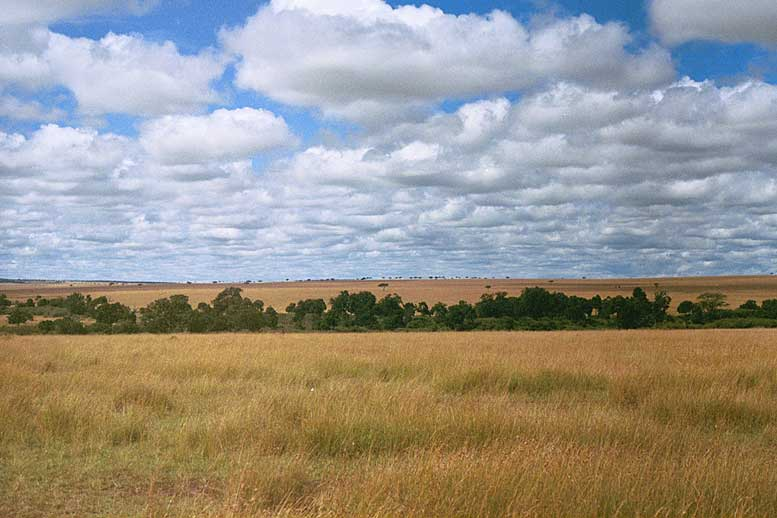 The Serengeti Desert as seen from Kenya